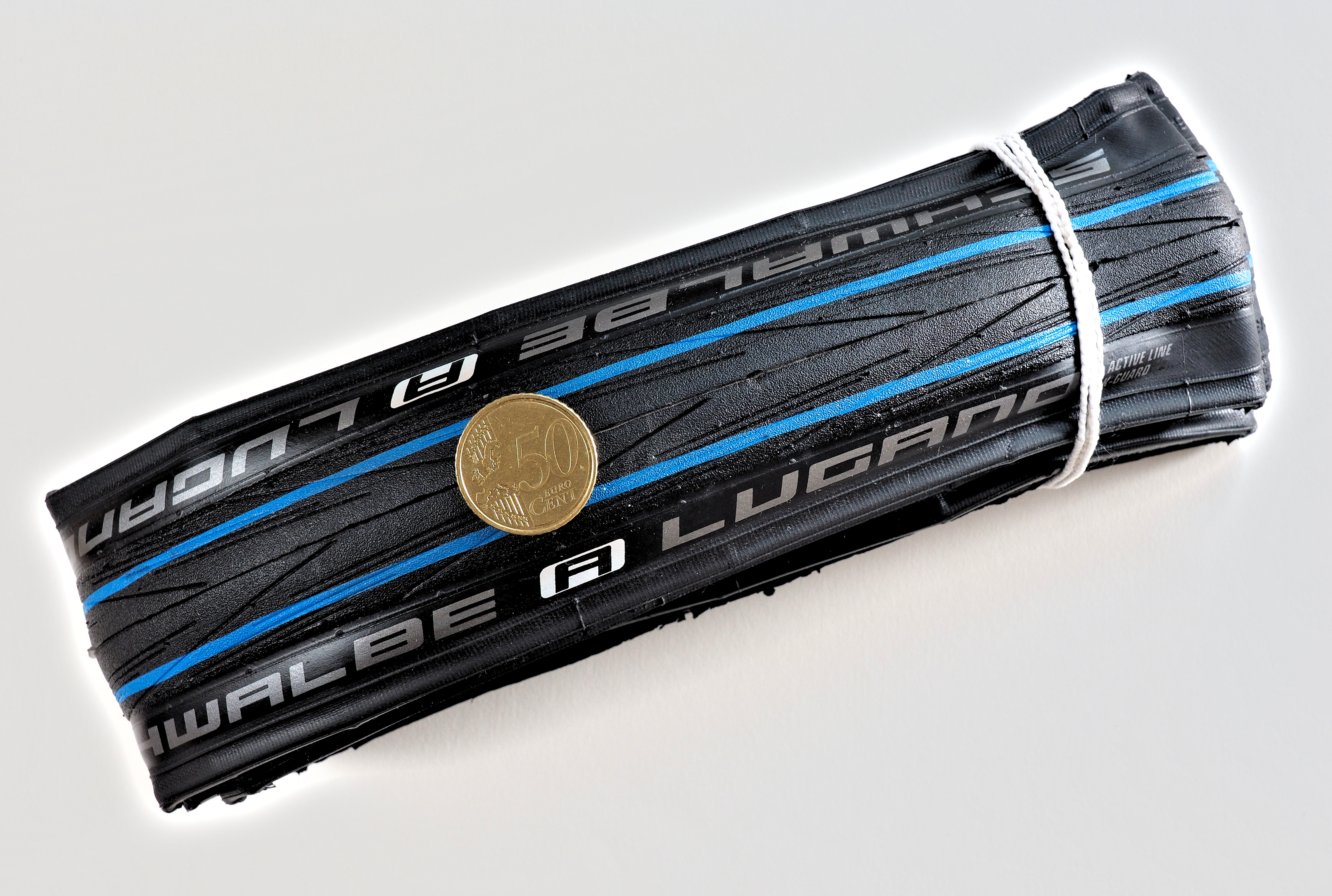 Schwalbe Lugano, clincher road bicycle tire, 700×25c (25-622), specified weight 280 g, 50 tpi. Coin 50c: diameter 24.25 mm (0.95 in). Made in Indonesia (2019 production)